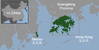 The location of SARs within the Pearl River Delta. The map also shows the maritime boundary of Hong Kong since July 1 1997 and Macau since December 20, 1999.